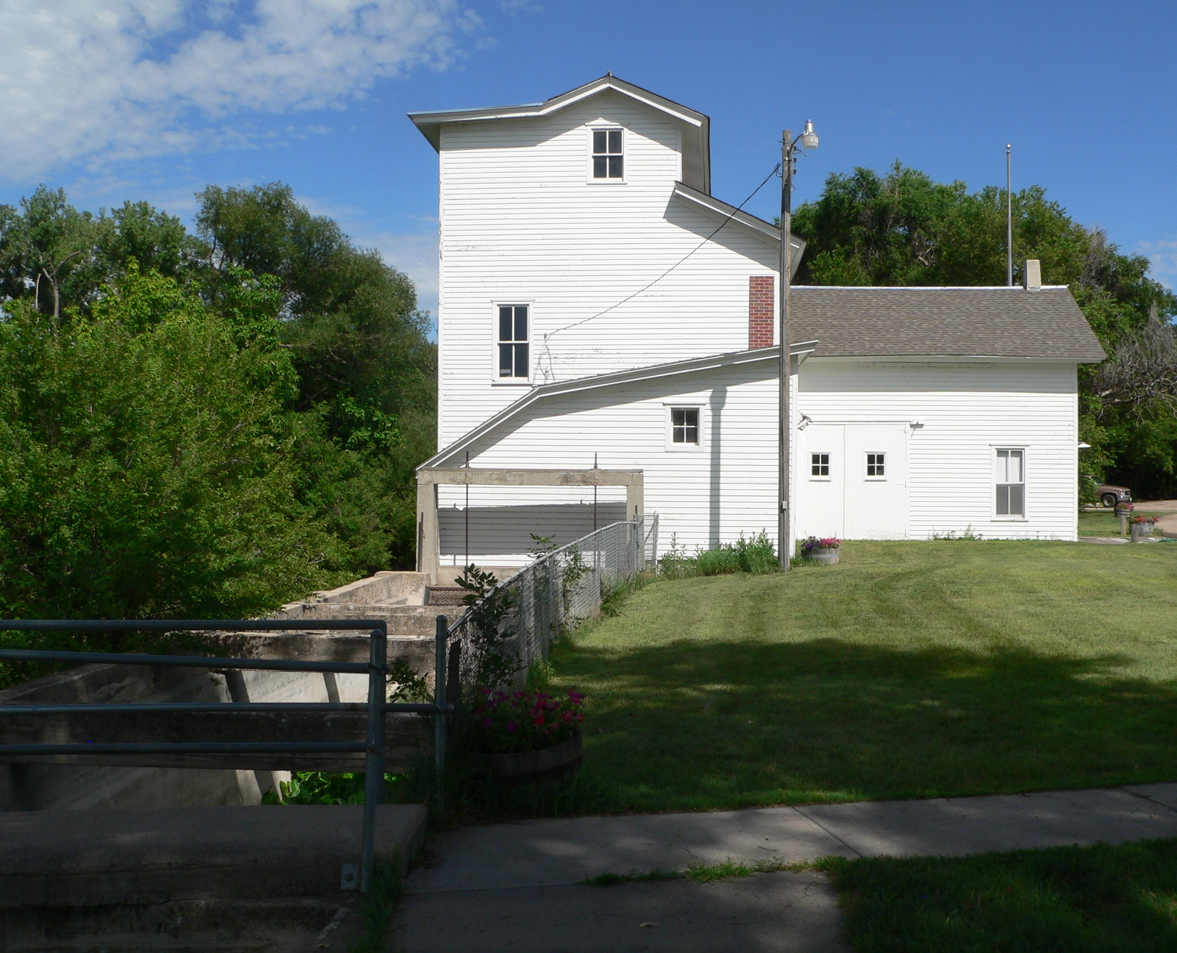 Champion Mill in Champion, Nebraska; seen from the west. The mill was built in 1892, and is listed in the National Register of Historic Places. It is presently operated as a museum. The camera is positioned upstream from the mill; the railing at lower left leads onto the dam, and the millrace extends away from it toward the left part of the building.